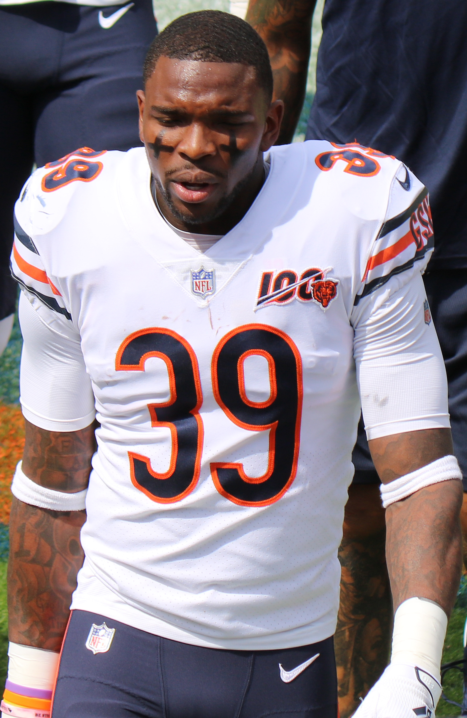 Eddie Jackson, a National Football League player.